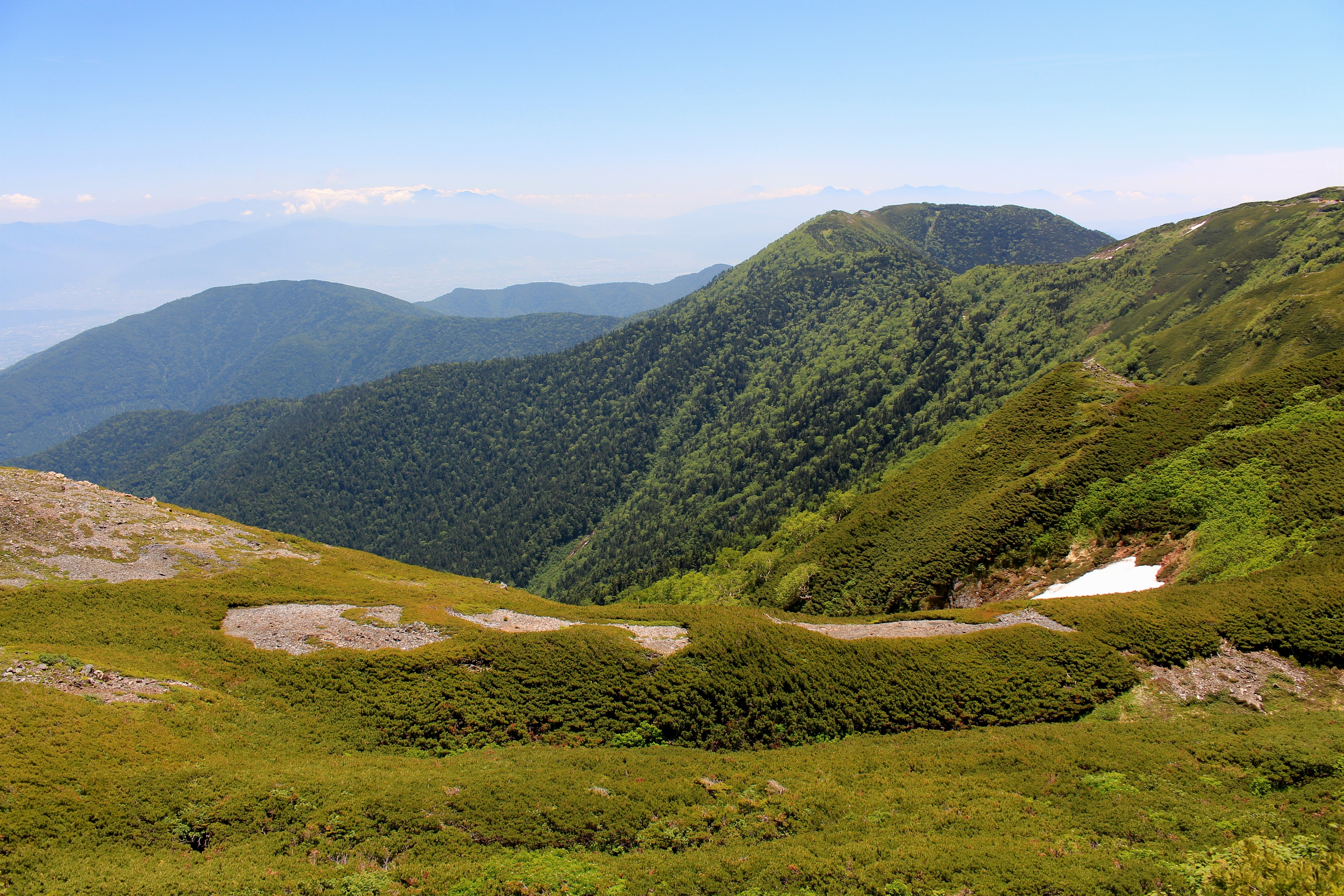 Mount Otaki and Mount Nabekanmuri seen from Mount Cho in Jonen Mountains of Hida Mountains, Nagano prefecture, Japan.